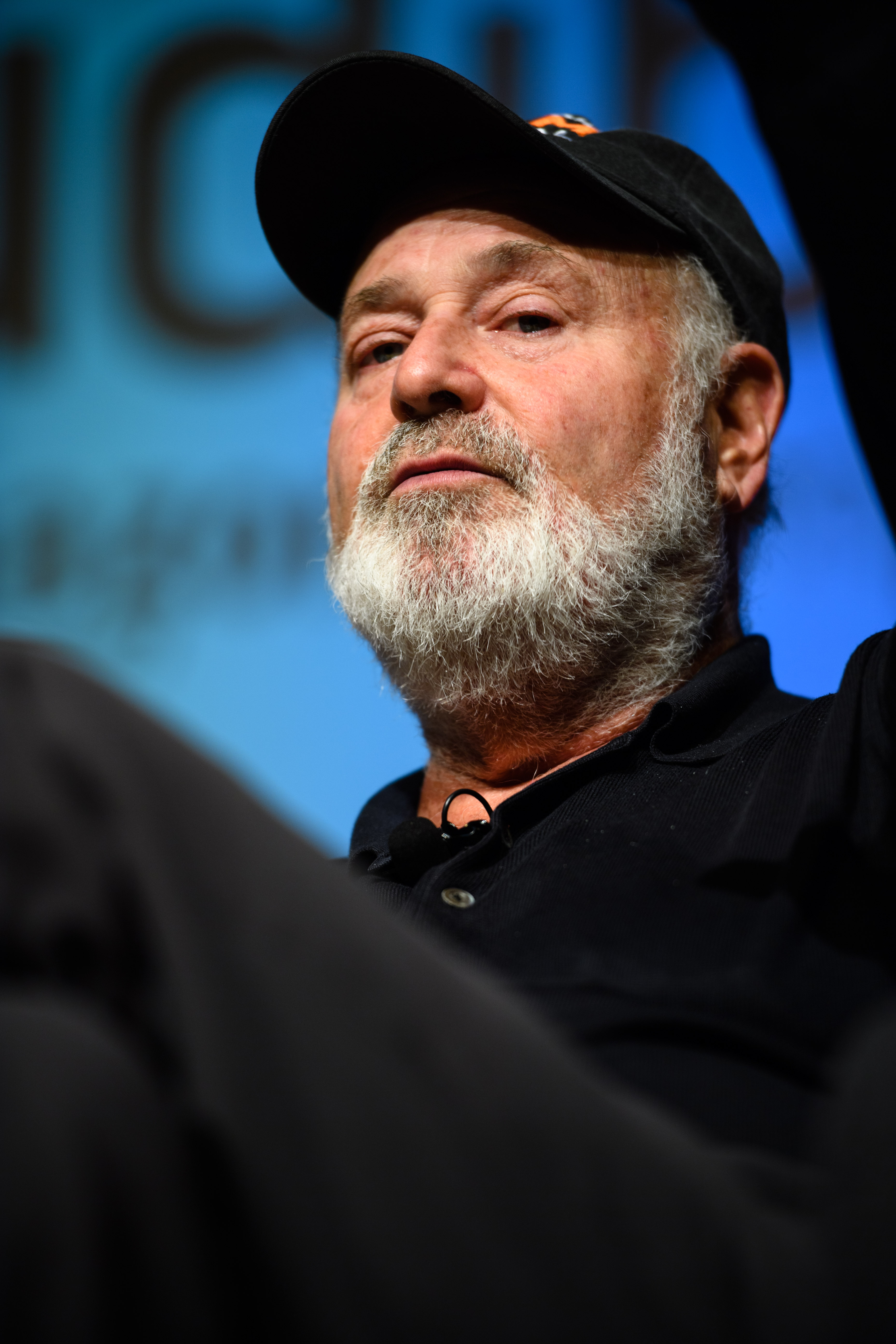 Rob Reiner at the Montclair Film Festival 2016.